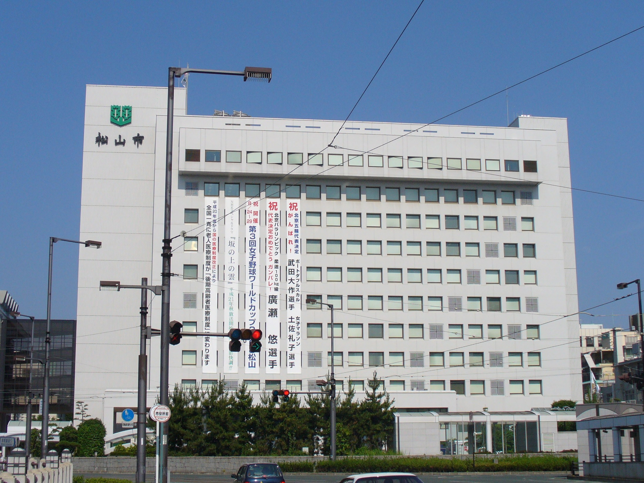 Matsuyama city office, Ehime prefecture, Japan